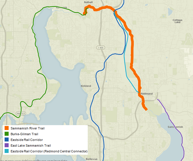 Sammamish River Trail route. Created with Tableau